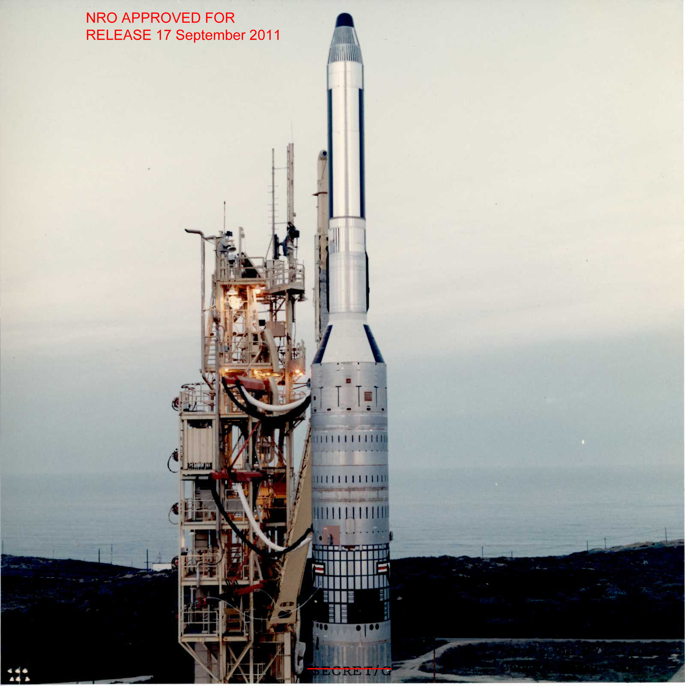 KH-8 (Gambit-3) reconnaissance satellite on launch pad